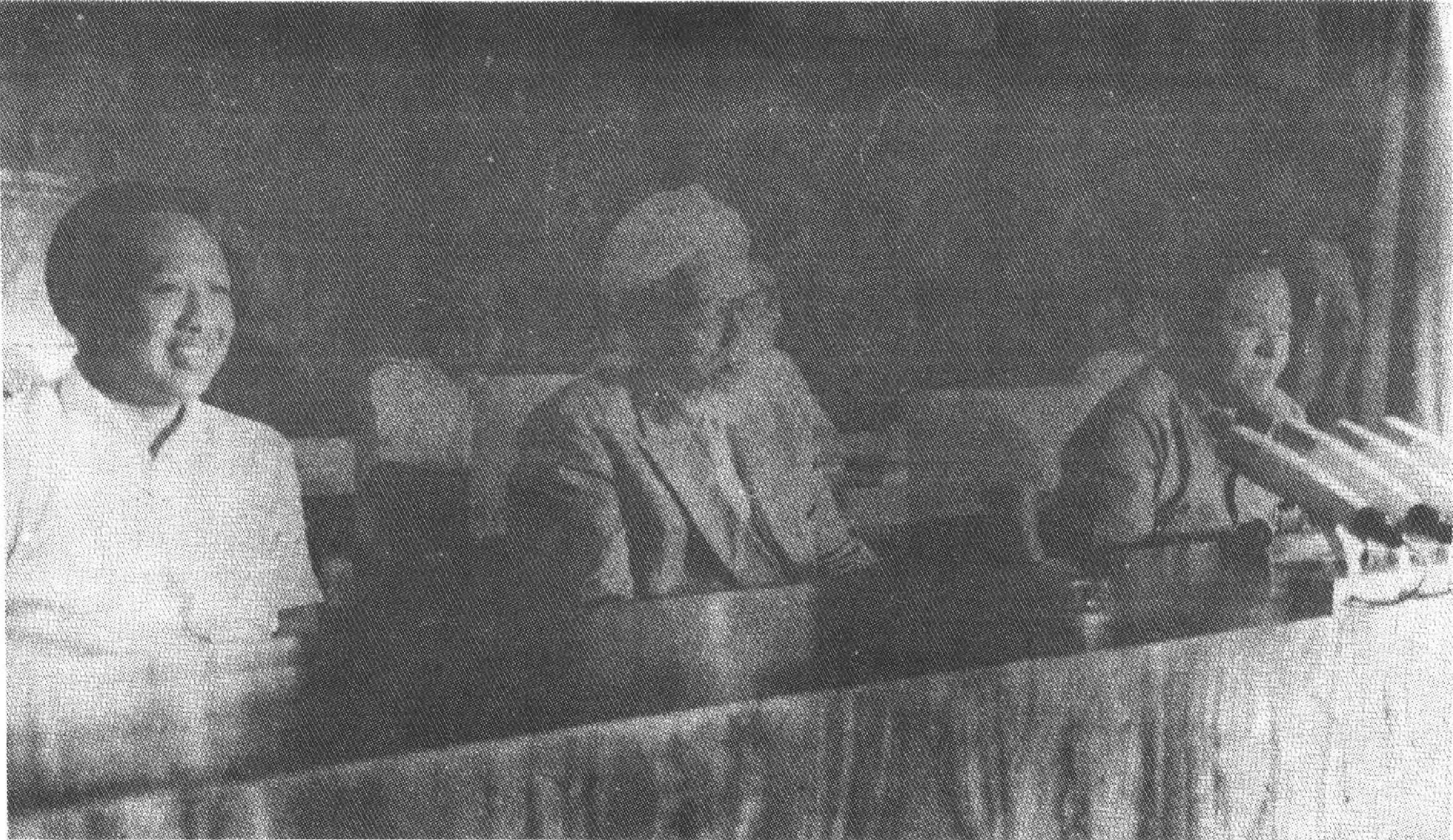 The 1971 plenary session of the People's Representative Council was led by the youngest and oldest MP, A.A. Oka Mahendra and K.H. Bisri Syansuri, accompanied by the General Secretary of the DPR.